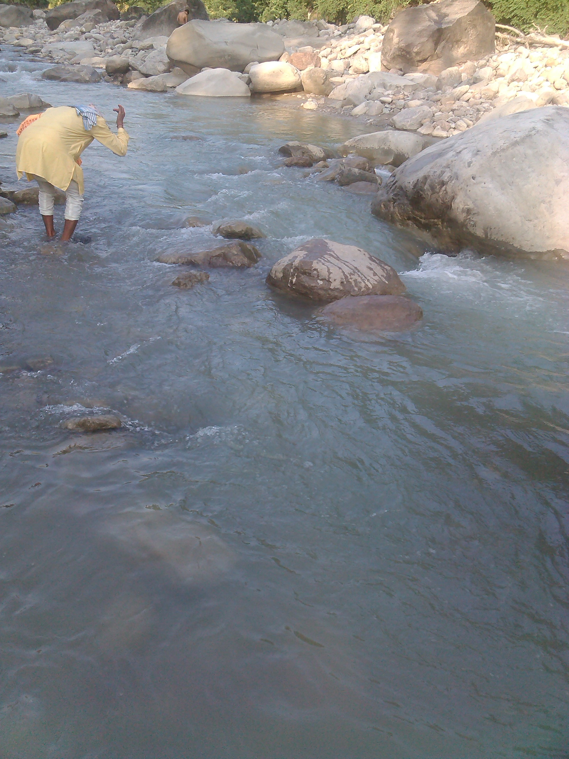 Godawari river at Kailali district.